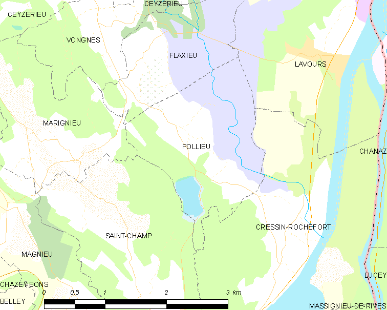 Map of French commune: Pollieu Map commune FR insee code 01302.png